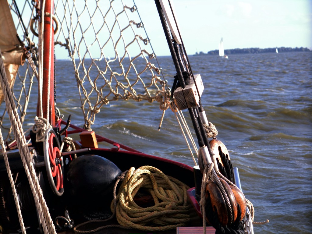 rig at prow of sailing ship